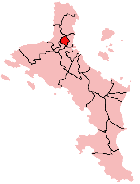 Map of Mahe Island, Seychelles showing Mont Buxton District; created with the GIMP. Made by User:Acntx.